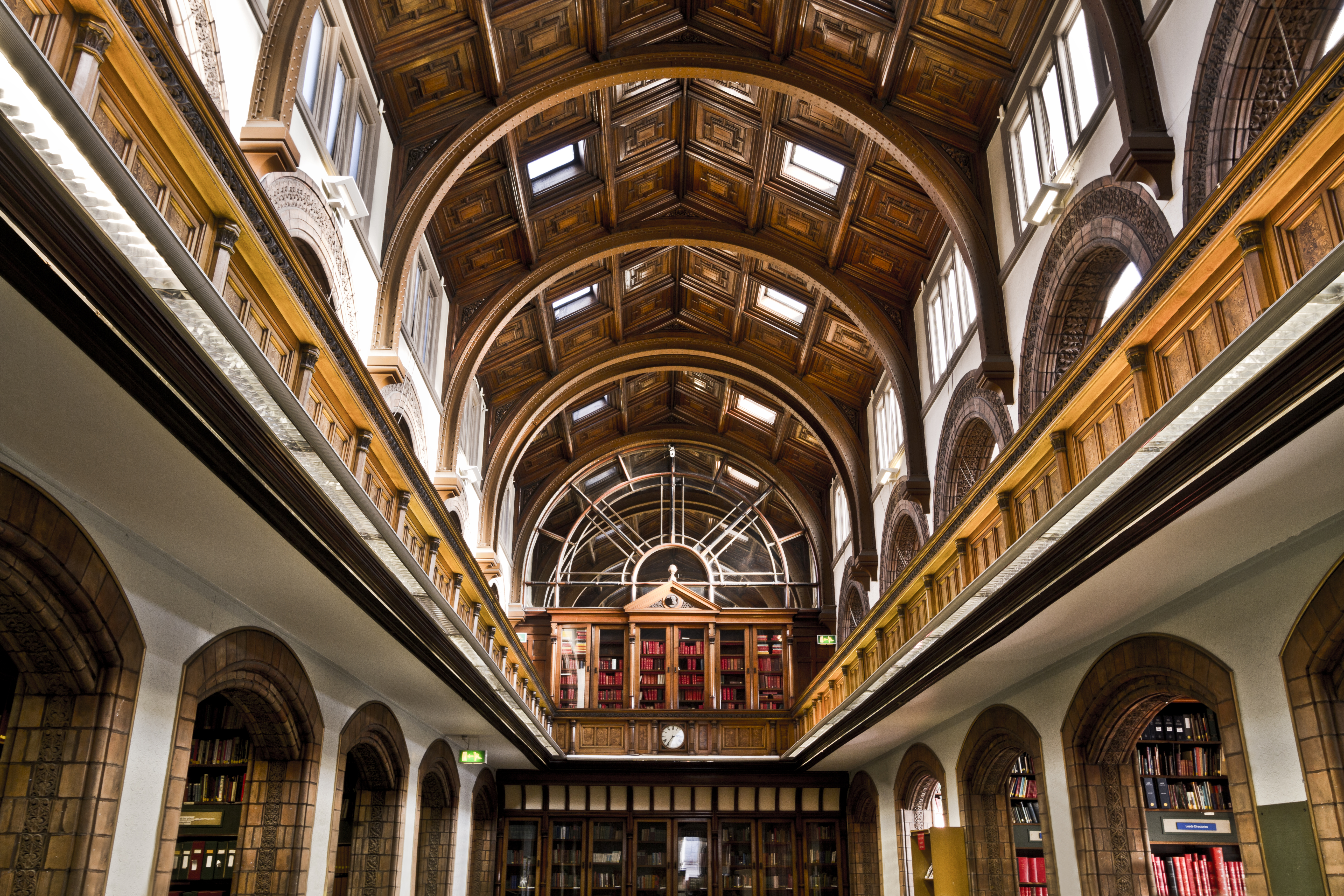 Here is a photograph from Leeds Central Library. Located in Leeds, Yorkshire, England, UK.